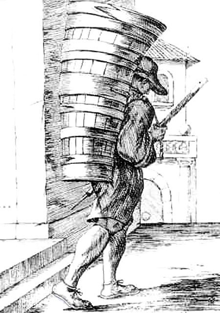 Wine groving XVIIIe